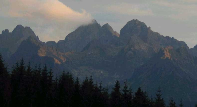 Tatra Mountains in Poland